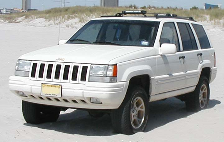 1993-1998 Jeep Grand Cherokee photographed in USA.